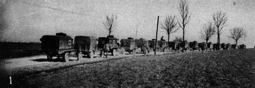 World War I in Reims-Verdon sector, France. Original caption: “Section XII making a short halt, while in convoy from Dombasle to Waly.”